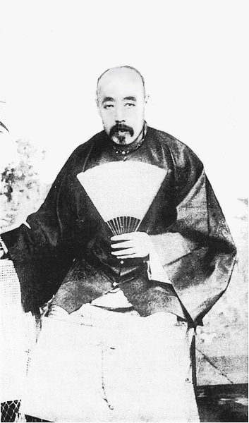 Wang Tingxiang, politician of the Qing Dynasty.